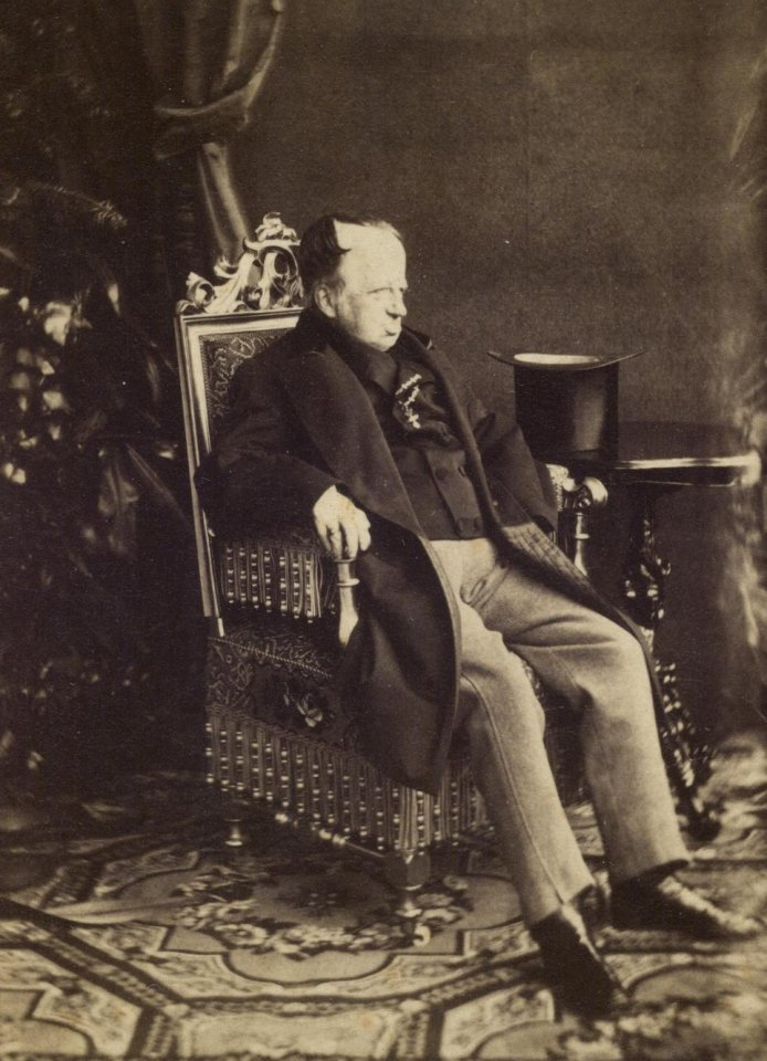 Portrait of Ferdinand I of Austria (1793–1875)